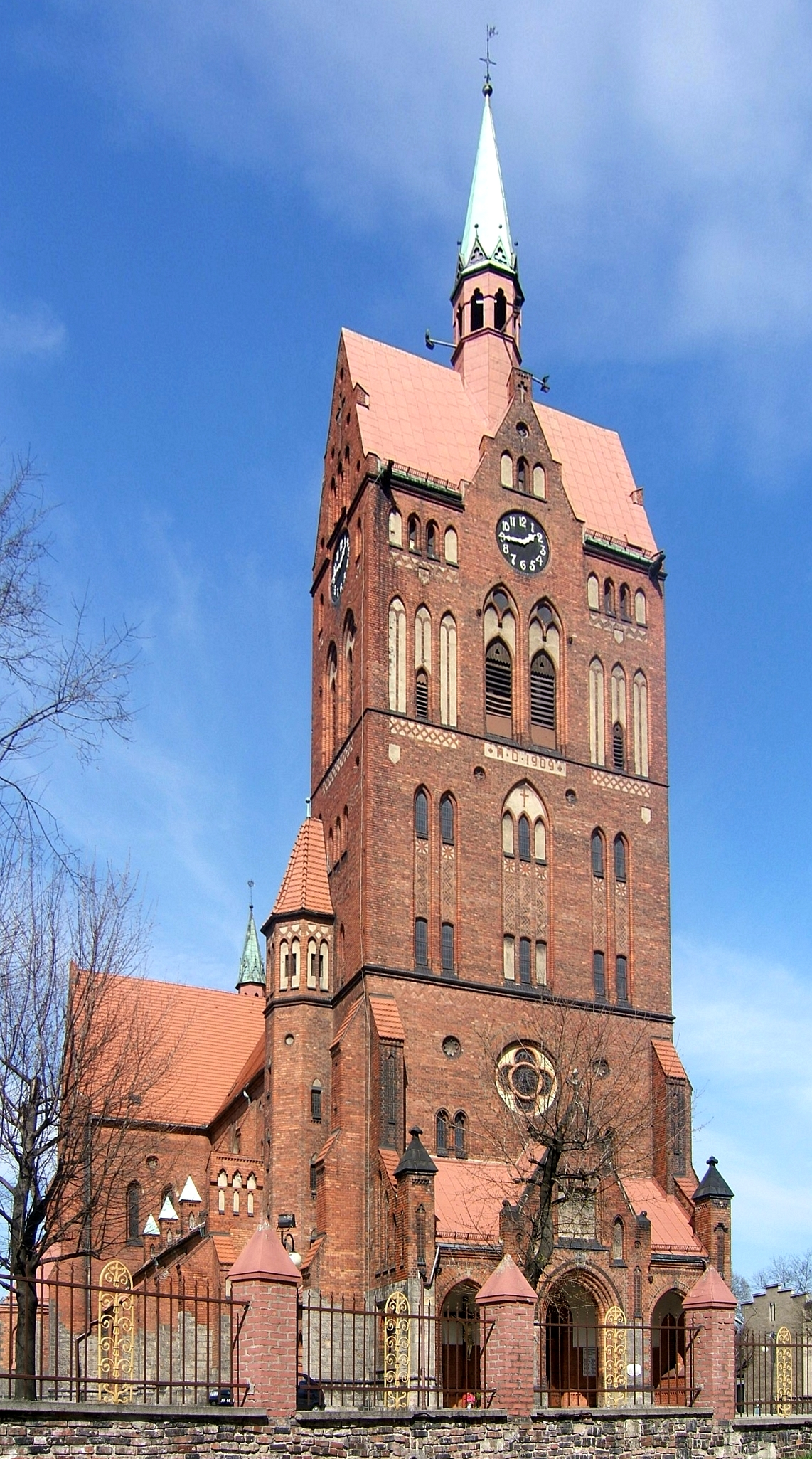 Church of St. Lawrence from 1909 in Wirek, a district of Ruda Śląska.